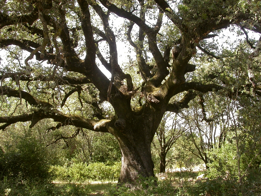 Quercus_ilex, Frouzet, Languedoc-Roussillon, France